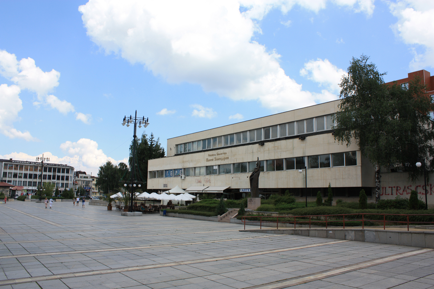 Samokov Municipal Library